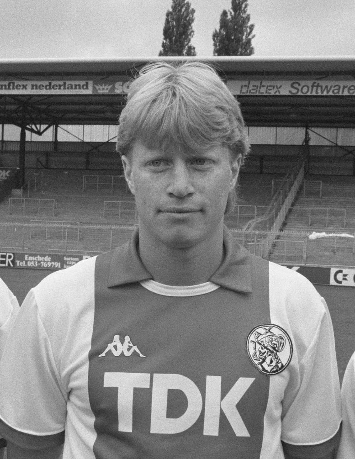 Stefan Pettersson